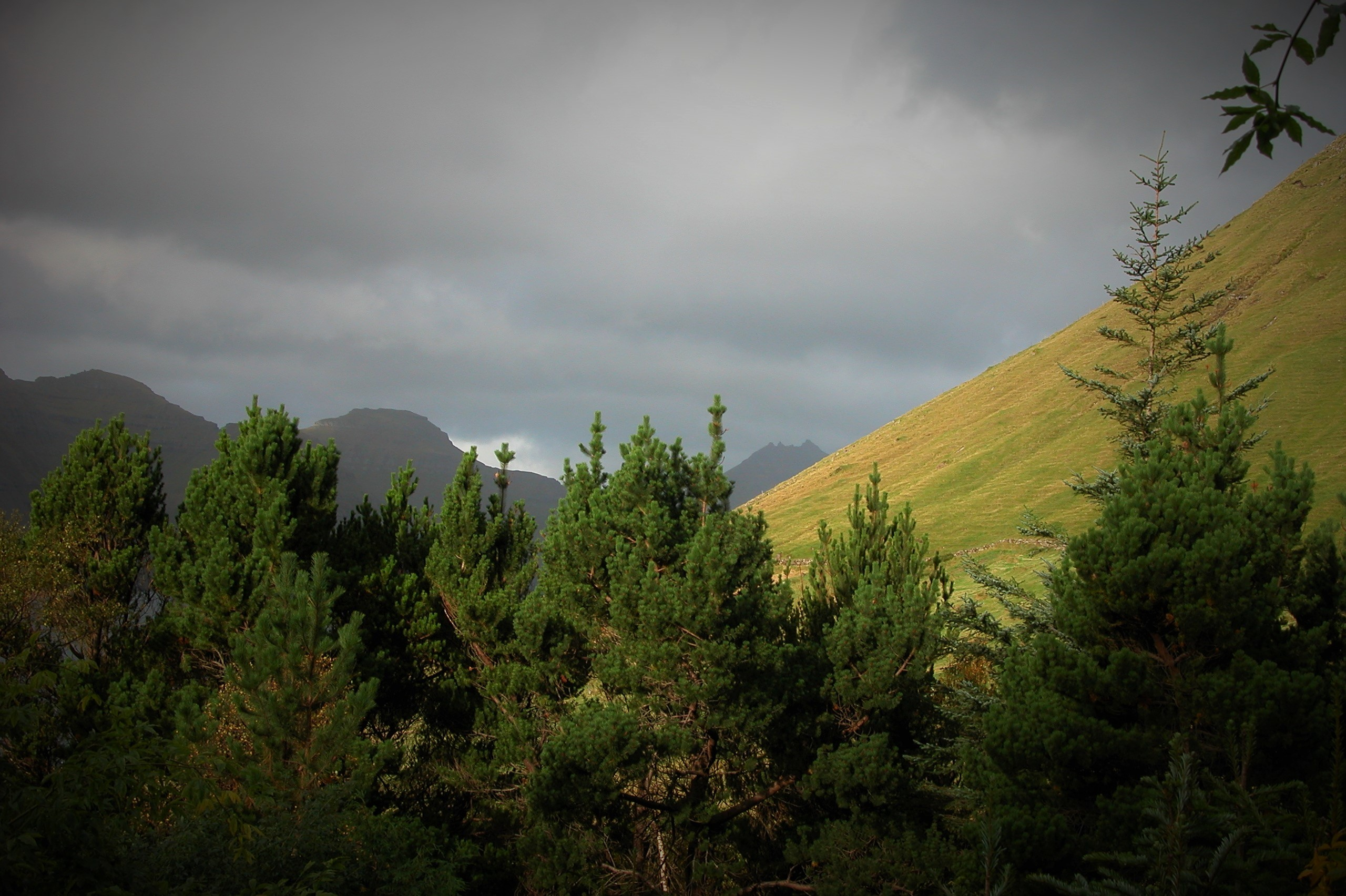 Kunoy Plantage, south of Kunoy bygd.